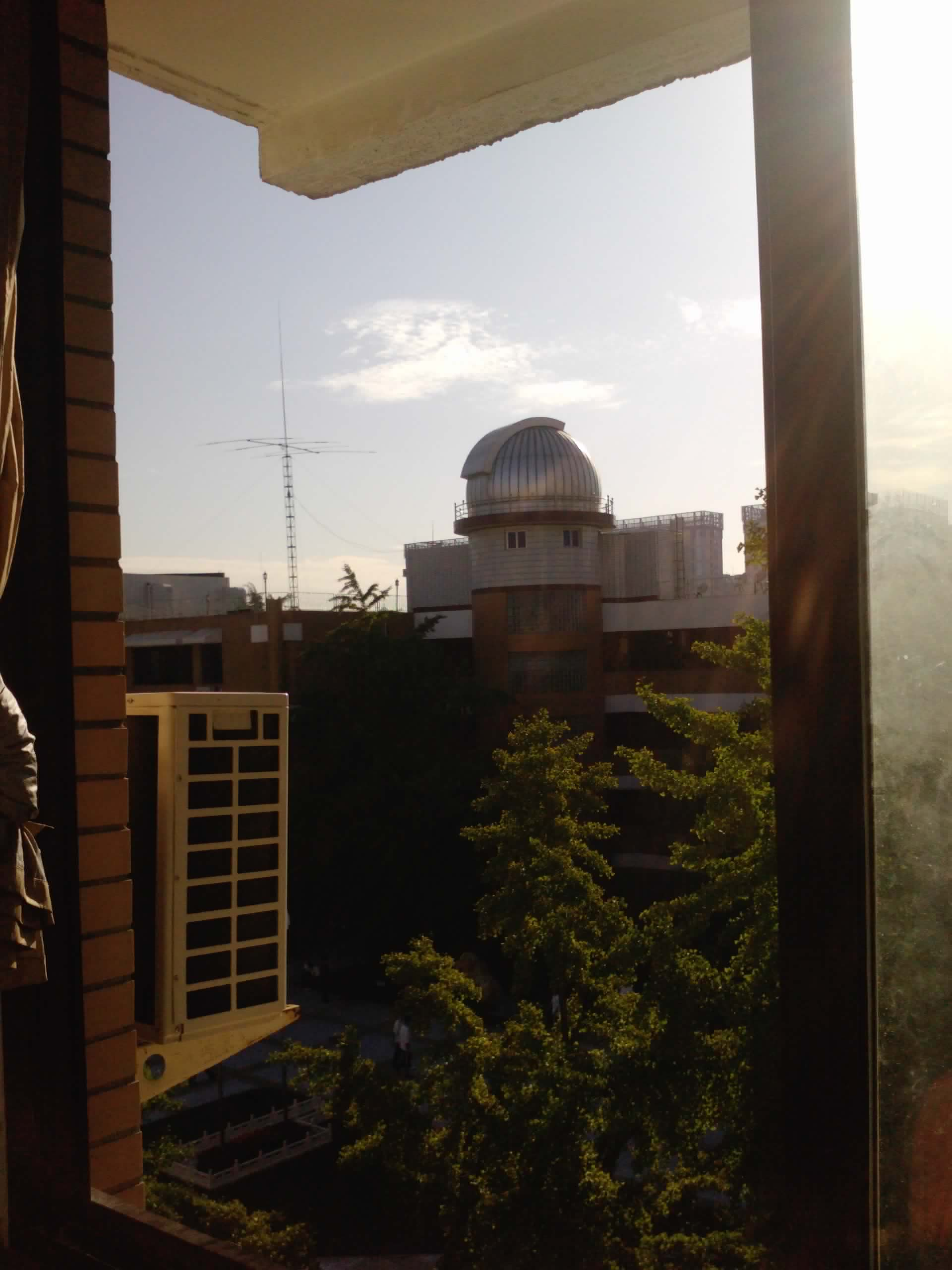 chenjinglun